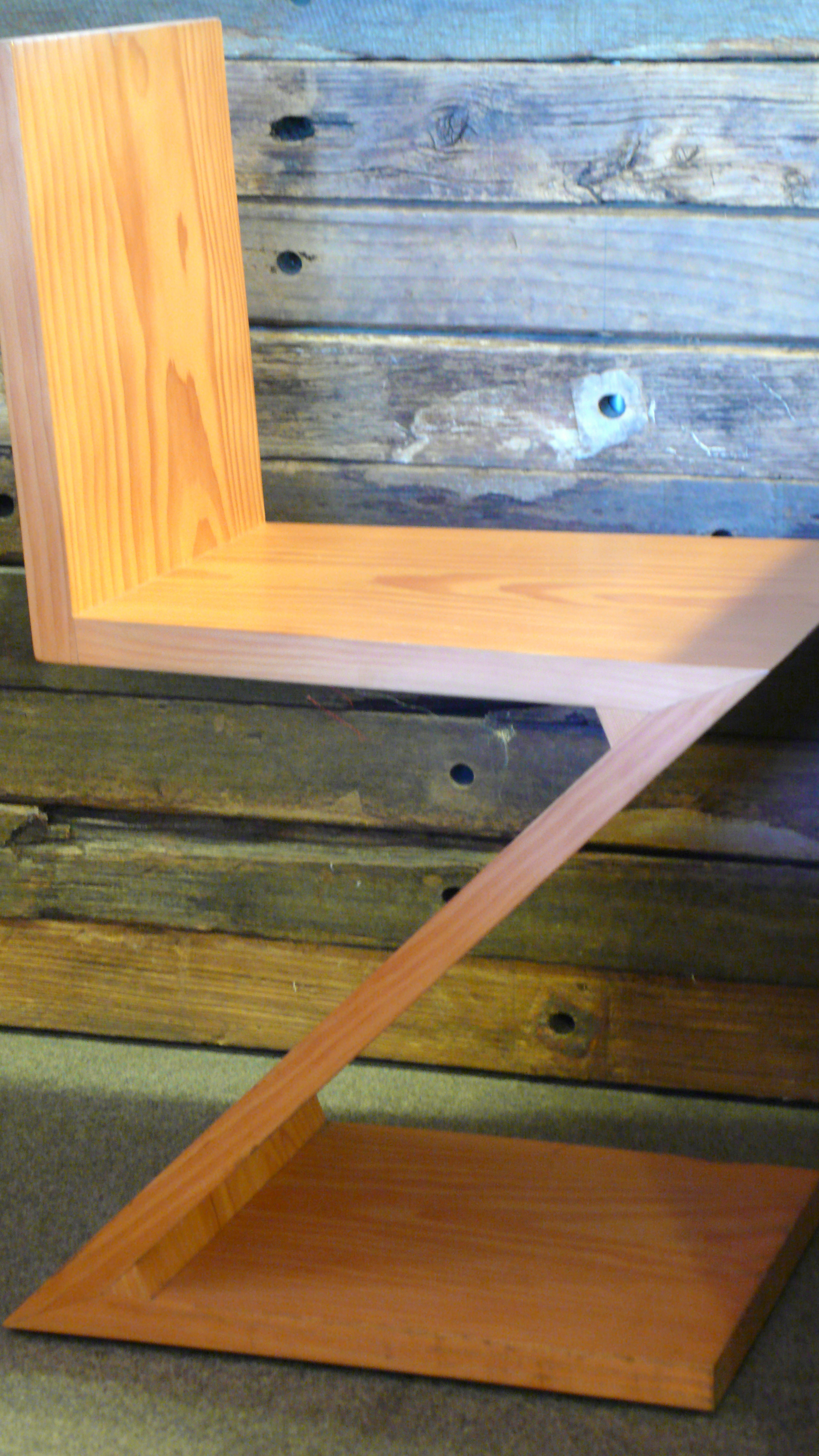 Picture of a zig zag chair (designed by Gerrit Rietveld)